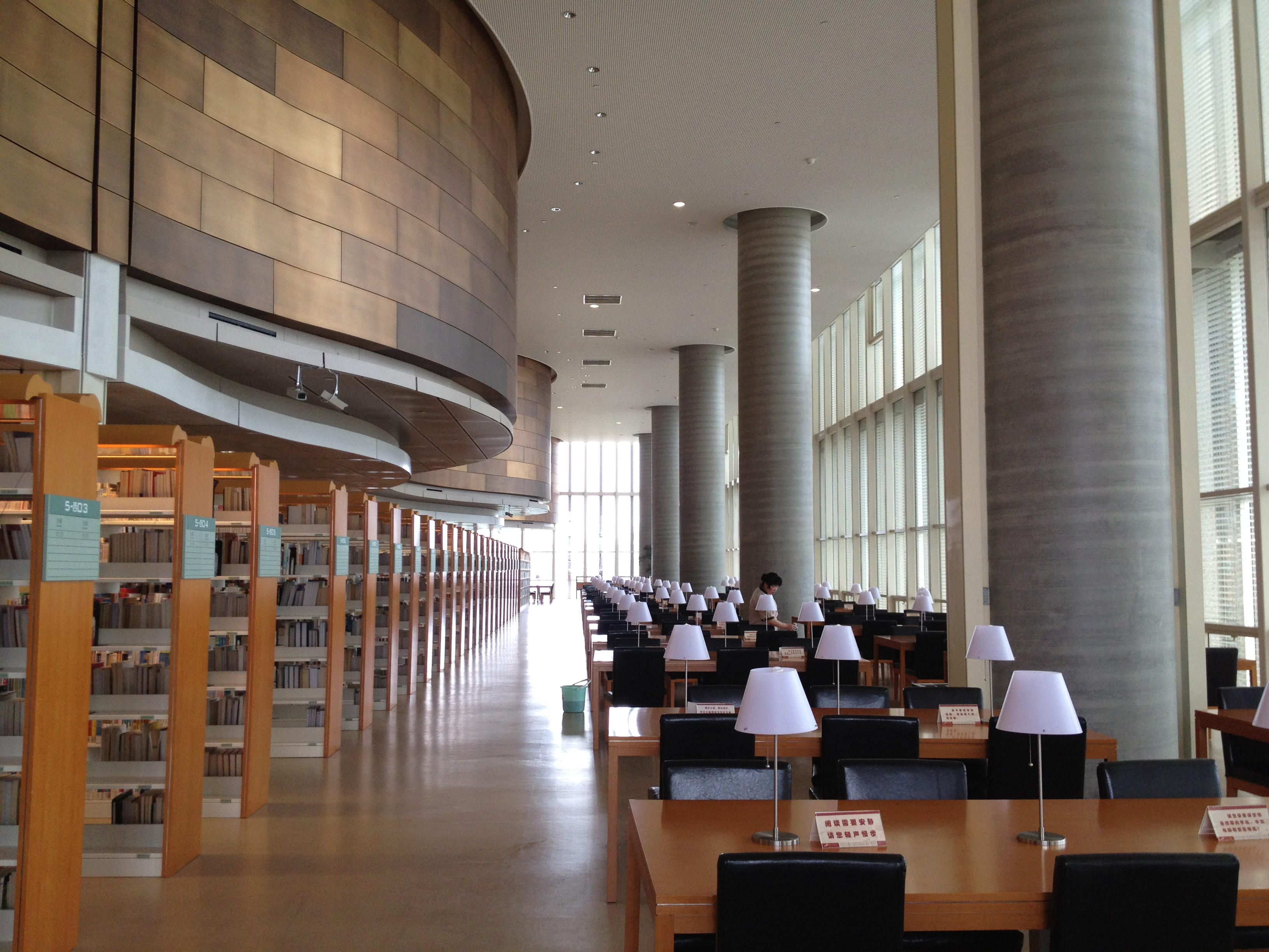 Shanghai Pudong Library 5th floor 2012-07-09